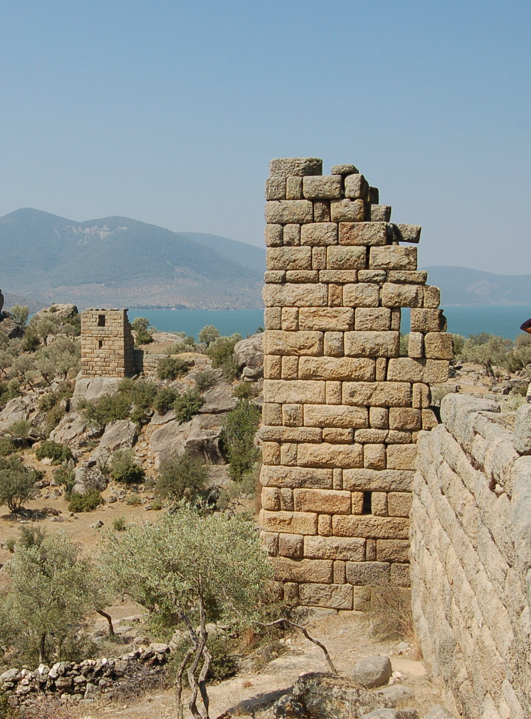 Part of the ancient walls of Heraclea by Latmus